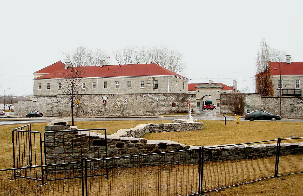 Fort Frontenac in Kingston, Ontario, Canada. Restored remants in the foreground and the new fort in the background.